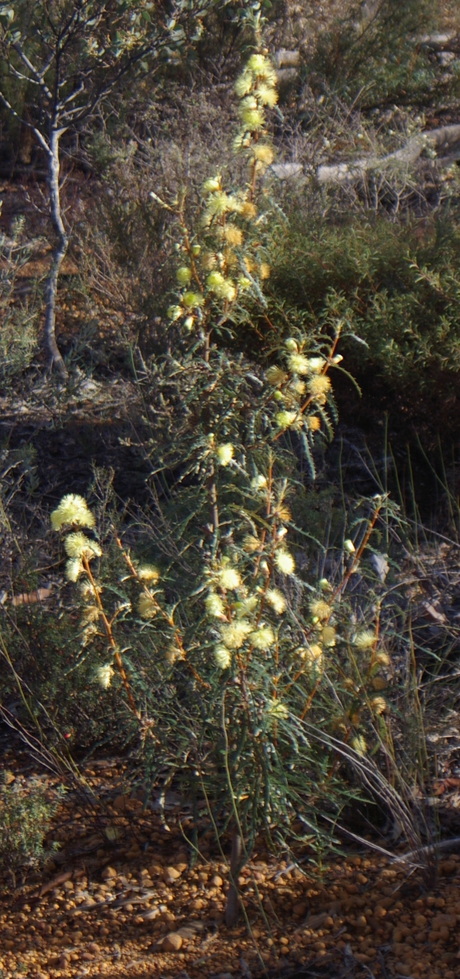 This is a cropped version of File:Banksia acanthopoda gnangarra 06.JPG by Gnangarra. It shows Banksia acanthopoda in the Dryandra Woodland.